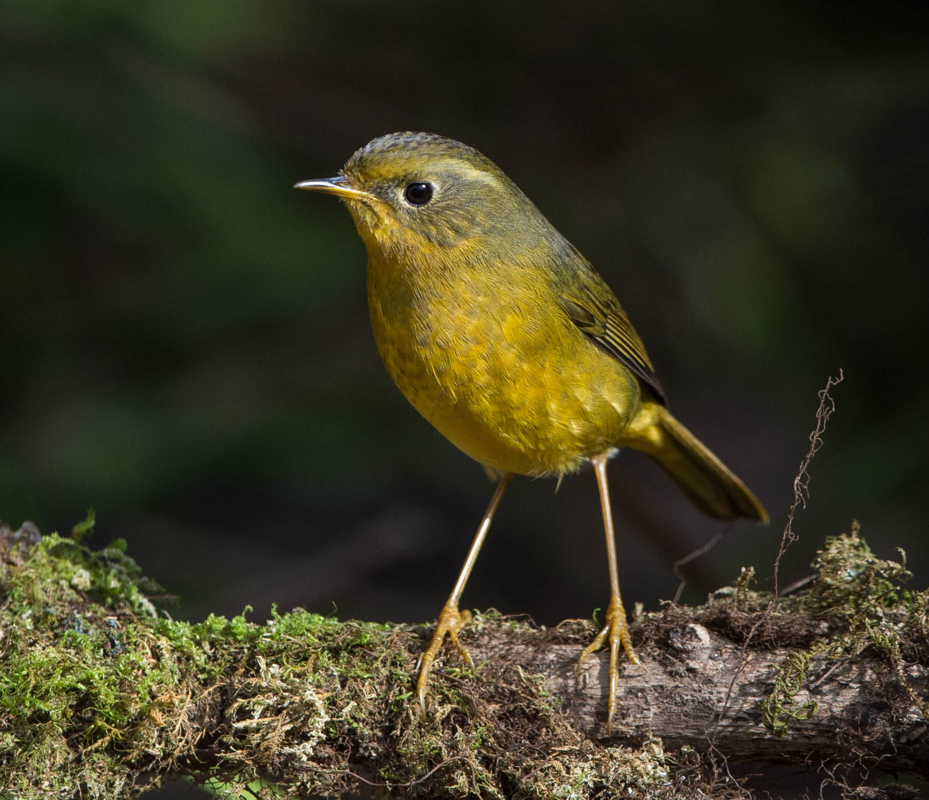 Golden Bush Robin (Tarsiger chrysaeus) at Doi Lang, Chiang Mai, Thailand. 21 December 2013.